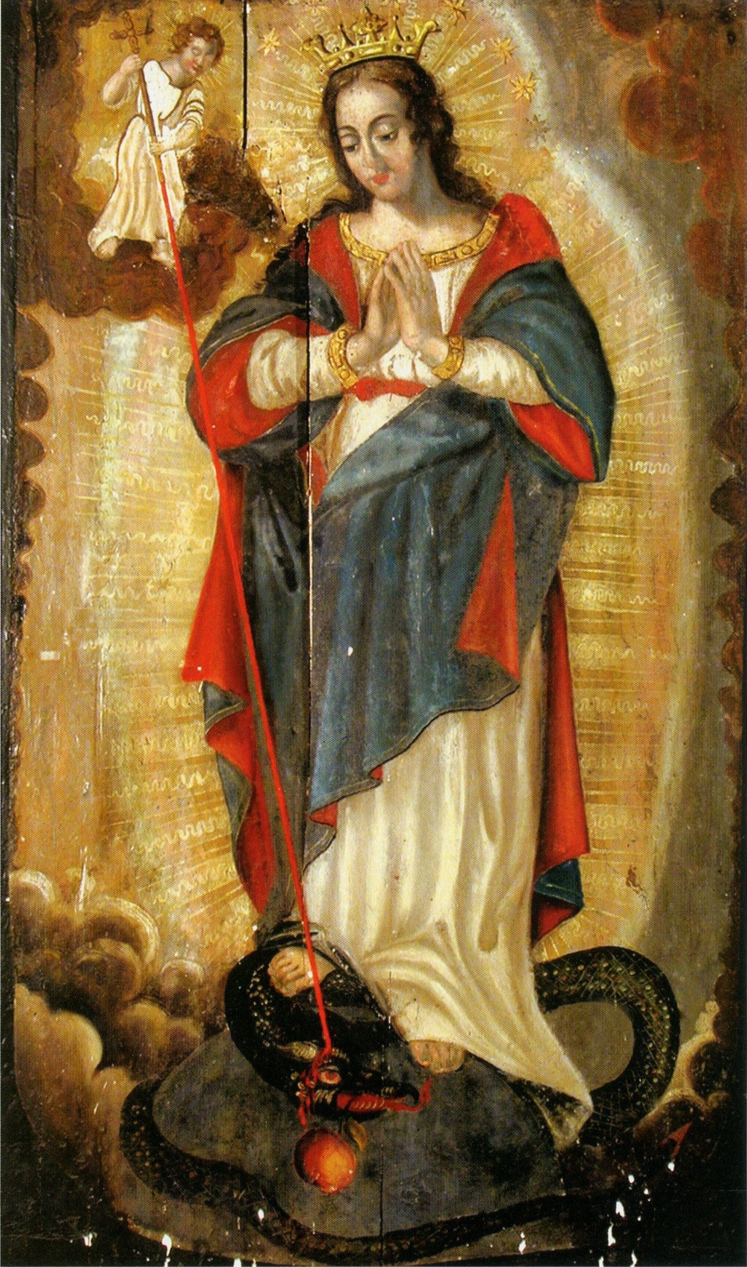 THE CHASTE CONCEPTION. 1st half of the 17th c. Wood, tempera. The Trinity Catholic Church, Shylavichy, Vaukavysk district, Grodna region.